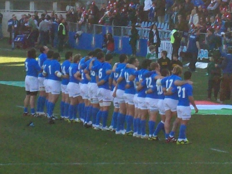 Italy lineup before the anthems during the Six Nations match vs Ireland in Rome